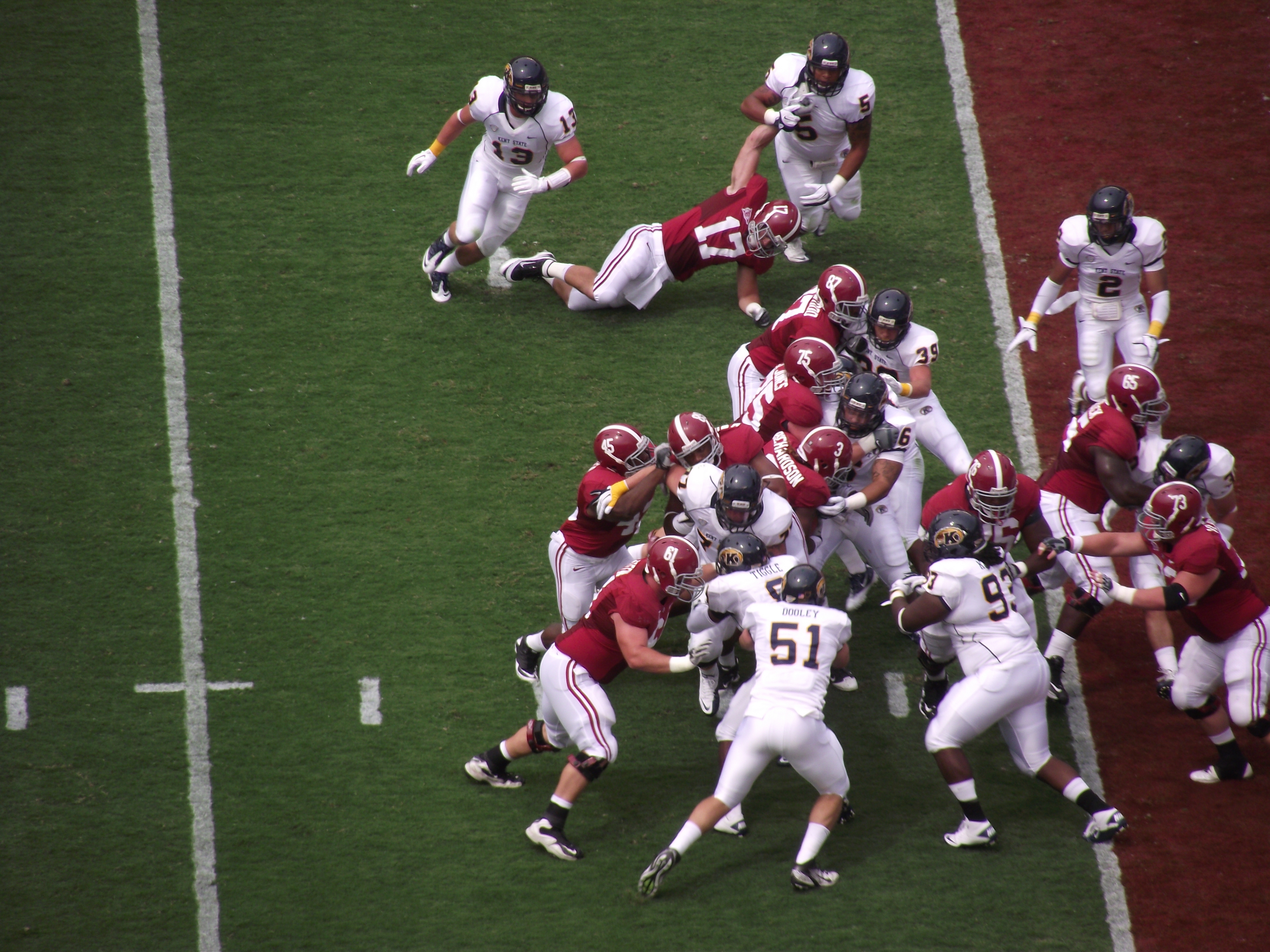 Alabama Crimson Tide football running back Trent Richardson running the ball towards the endzone against the Kent State Golden Flashes football team at Bryant–Denny Stadium in Tuscaloosa, Alabama.